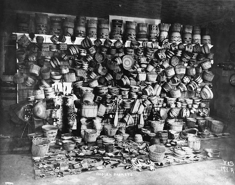 Caption on image: "Indian baskets" Original photograph by Eric A. Hegg 831; copied by Webster and Stevens 199.A. Subjects (LCTGM): Baskets; Beadwork Subjects (LCSH): Aleut arts; Tlingit arts; Tlingit baskets